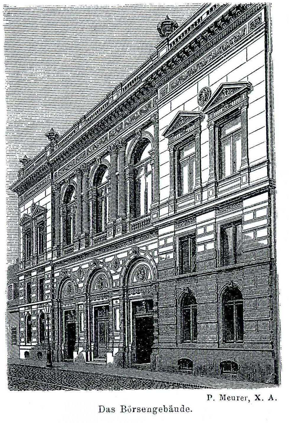 Dresden Börse Fassade an der Waisenhausstraße von Guido Ehrig und Albin Zumpe Neorenaissancebau nach Vorbild der italienischen Renaissance von 1873 bis 1875 erbaut